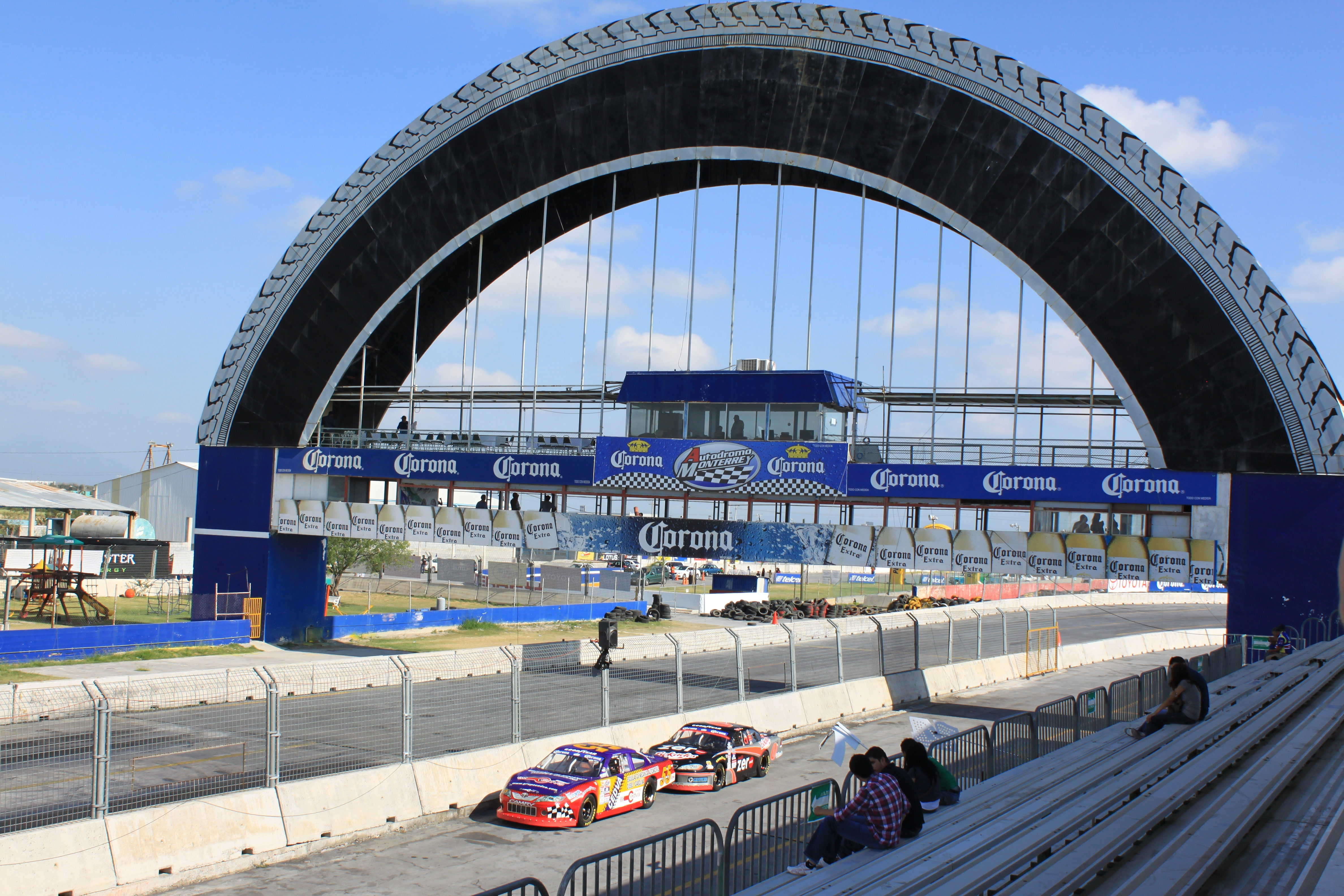 The brigde in the Autódromo Monterrey